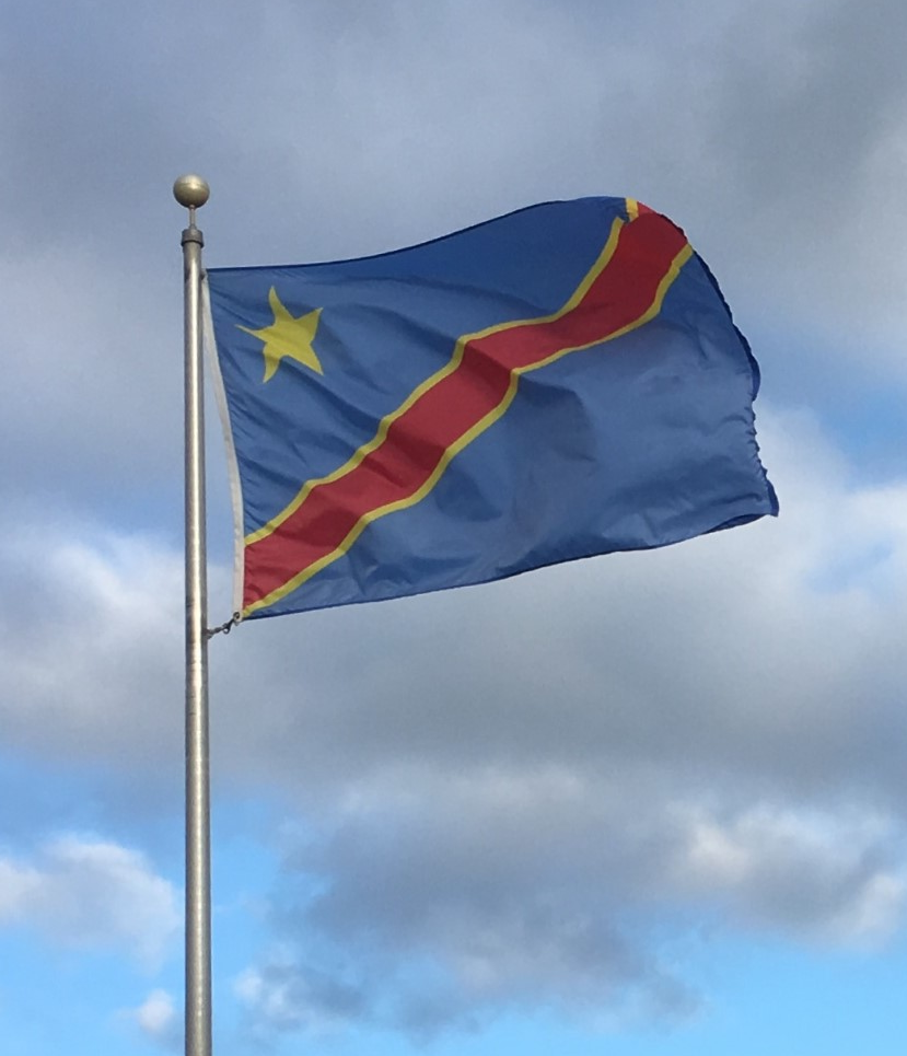 Flag of the Democratic Republic of the Congo, flying on a flagpole at the International Linguistic Center in Dallas, TX